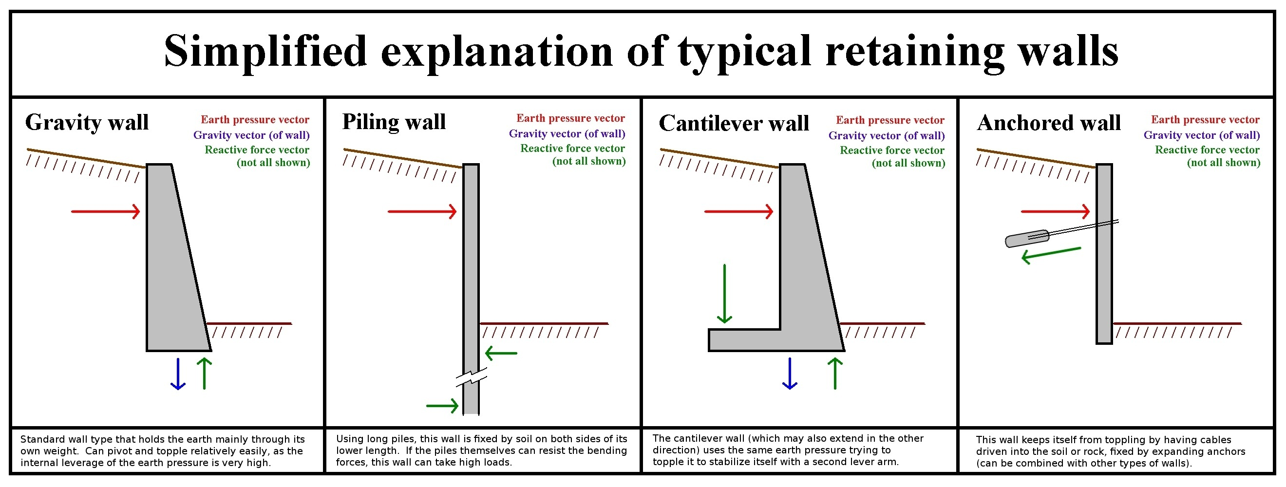 A simplified explanation of how various types of retaining walls work. Of course this is only an approximation, and actual calculation of lateral earth pressure involves a number of additional complexities. Constructive criticism on how to improve this diagram is welcomed.